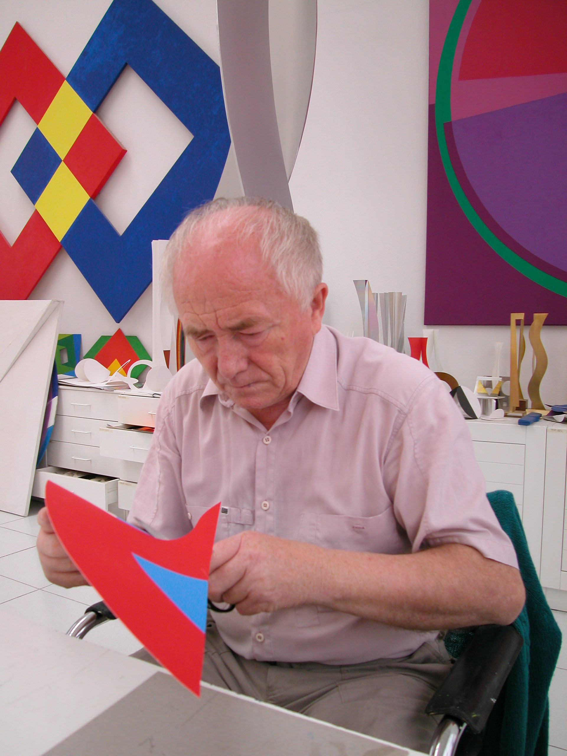 János Fajó Hungarian painter